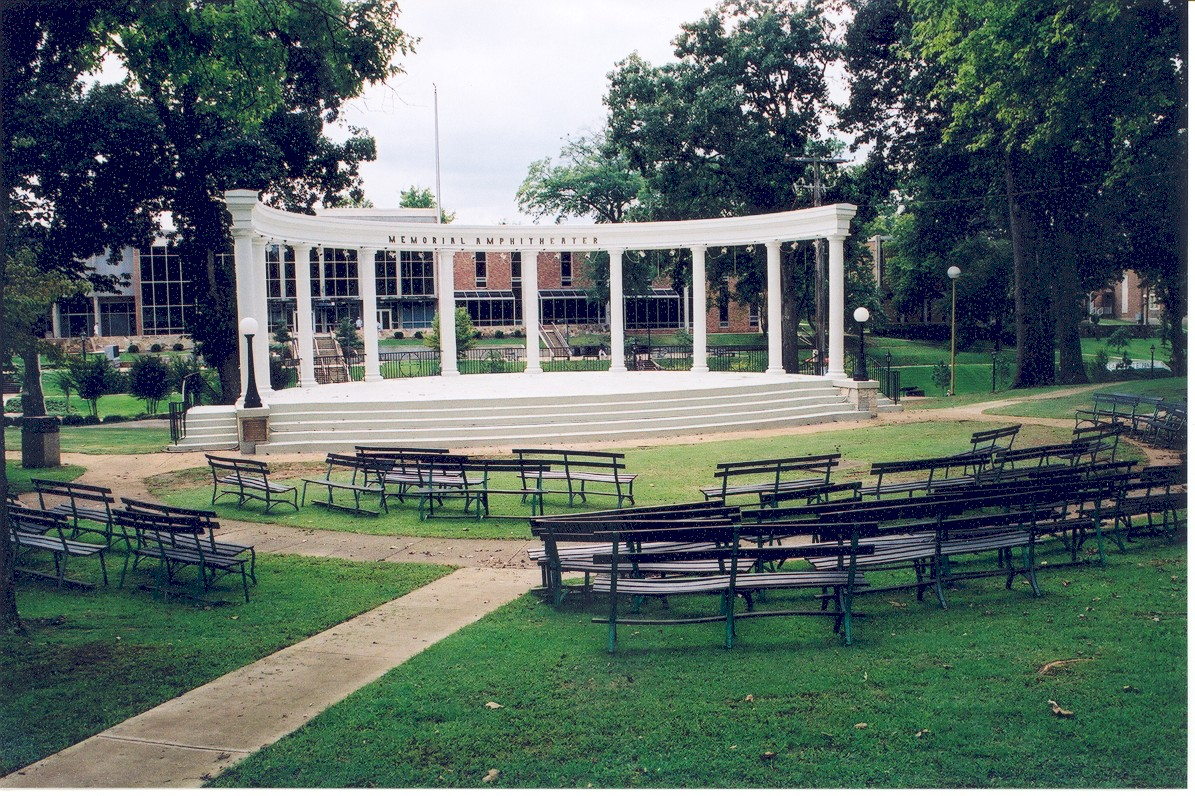 Open air theater — on the University of North Alabama campus in Florence, Alabama. Taken by me, summer 2005.